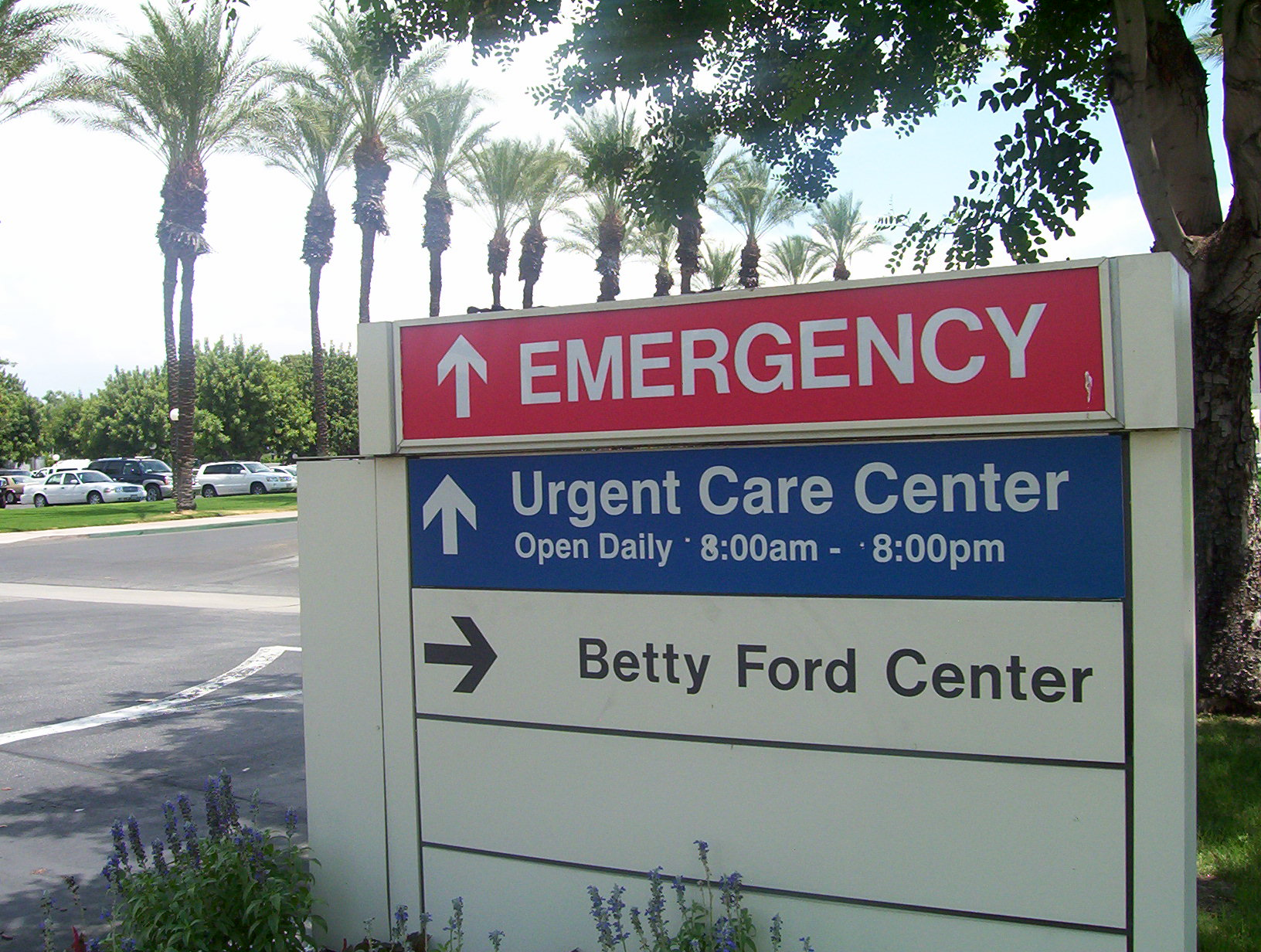 Betty Ford Center